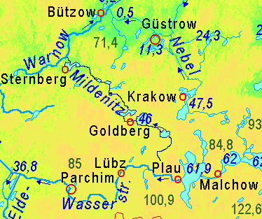 Part of Physical map of Mecklenburg-Vorpommern: Dark green figures = soil above sea level in meters dark blue figures = water level above sea level in meters dark blue arrows = direction of water flow lilac = water bodies crossing divides